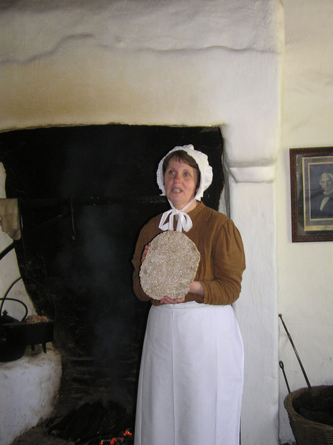 Oat cakes, Ulster American Folk Park Demonstrating how they were made